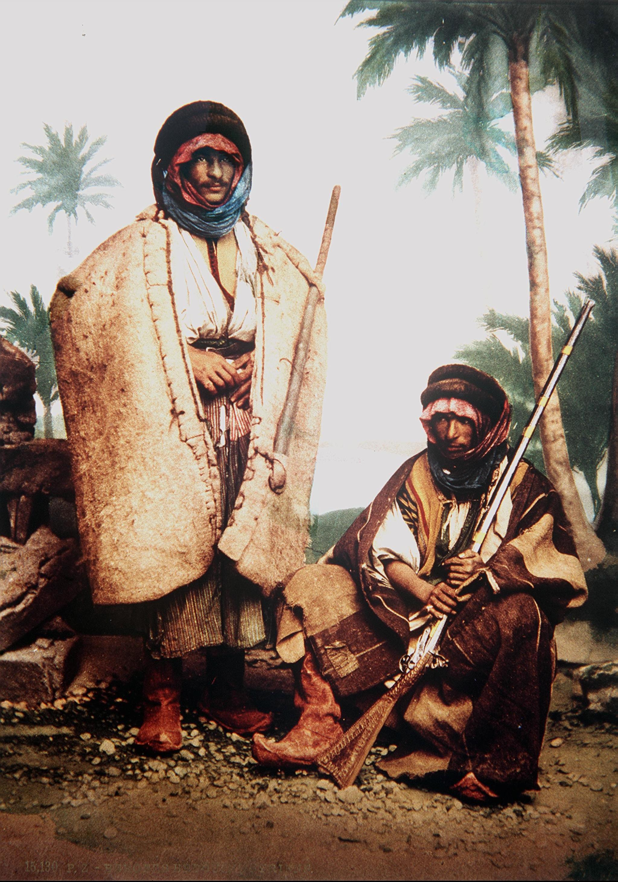 BEDUINS CARRYING RIFLES IN GALILEE. COLOR PHOTO TAKEN IN THE LATE 19TH CENTURY BY FRENCH PHOTOGRAPHER, BONFILS. צילום צבע מסוף המאה ה19 של הצלם הצרפתי בונפיס אשר תעד את נופי הארץ ותושביה. בצילום, בדואים נושאים נשק, בגליל.